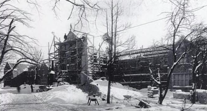 Howe Building_Watertown_Massachusetts